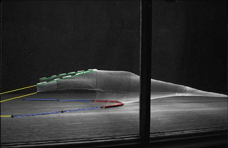 A typical bottom-trawl, sideview